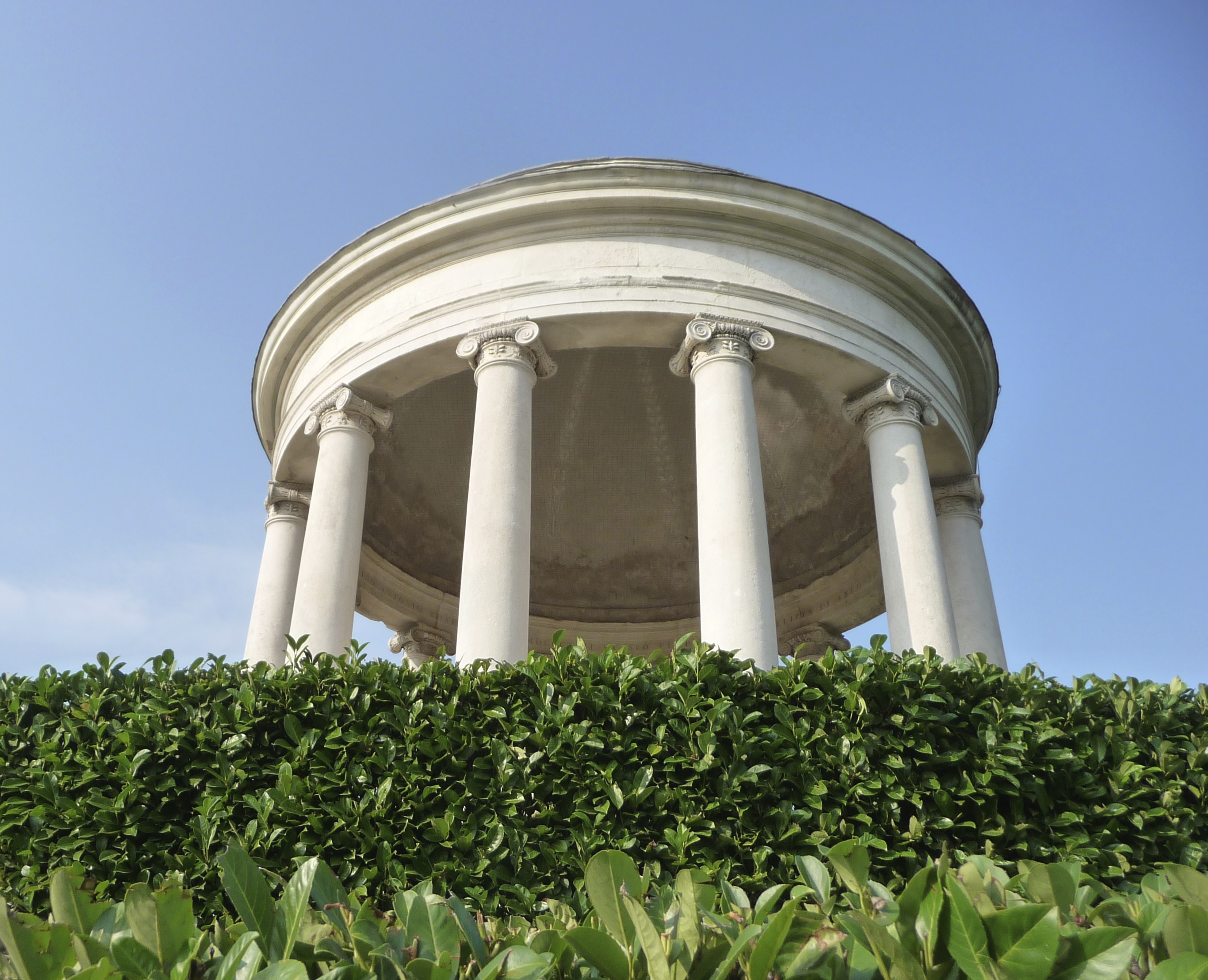 Vicenza, little monopteros temple in the Querini garden. Built by architect Antonio Piovene in 1820.